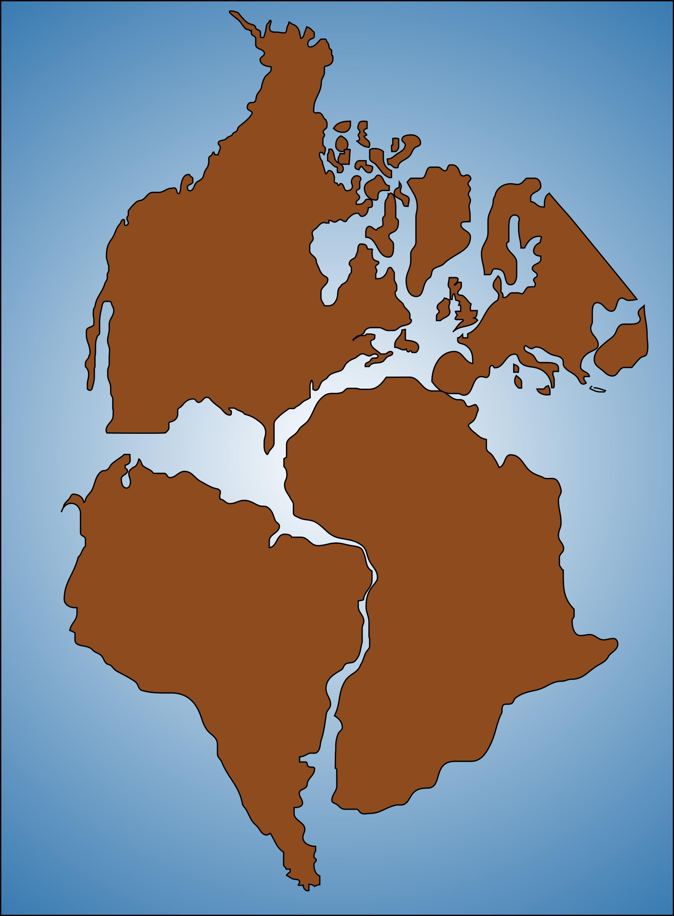 Reconstruction of Western Pangaea, similar to “Bullard's Fit” (black lines are modern day coastlines, except of the straight lines bordering North America to the south and Europe + Anatolia to the east): Stampfli, Gérard. Classic fit of Pangea by Bullard. Université de Lausanne: Institut de géologie et paléontologie.[dead link] Bullard, E.C.; Everett, J.E.; Smith, A.G. (1965) "The fit of the continents around the Atlantic" in Blackett, P.M.S.; Bullard, E.C.; Runcorn, S.K. , ed. A Symposium on Continental Drift (Oct. 28, 1965), Philosophical Transactions of the Royal Society of London. Series A, Mathematical and Physical Sciences, 258, The Royal Society, pp. 41–51 Nowadays, there is a better fit between Greenland and Norway. Torsvik, T.H. (2001). "Reconstructions of the Continents Around the North Atlantic at About the 60th Parallel". Earth Planetary Science Letters 187: 55–69.